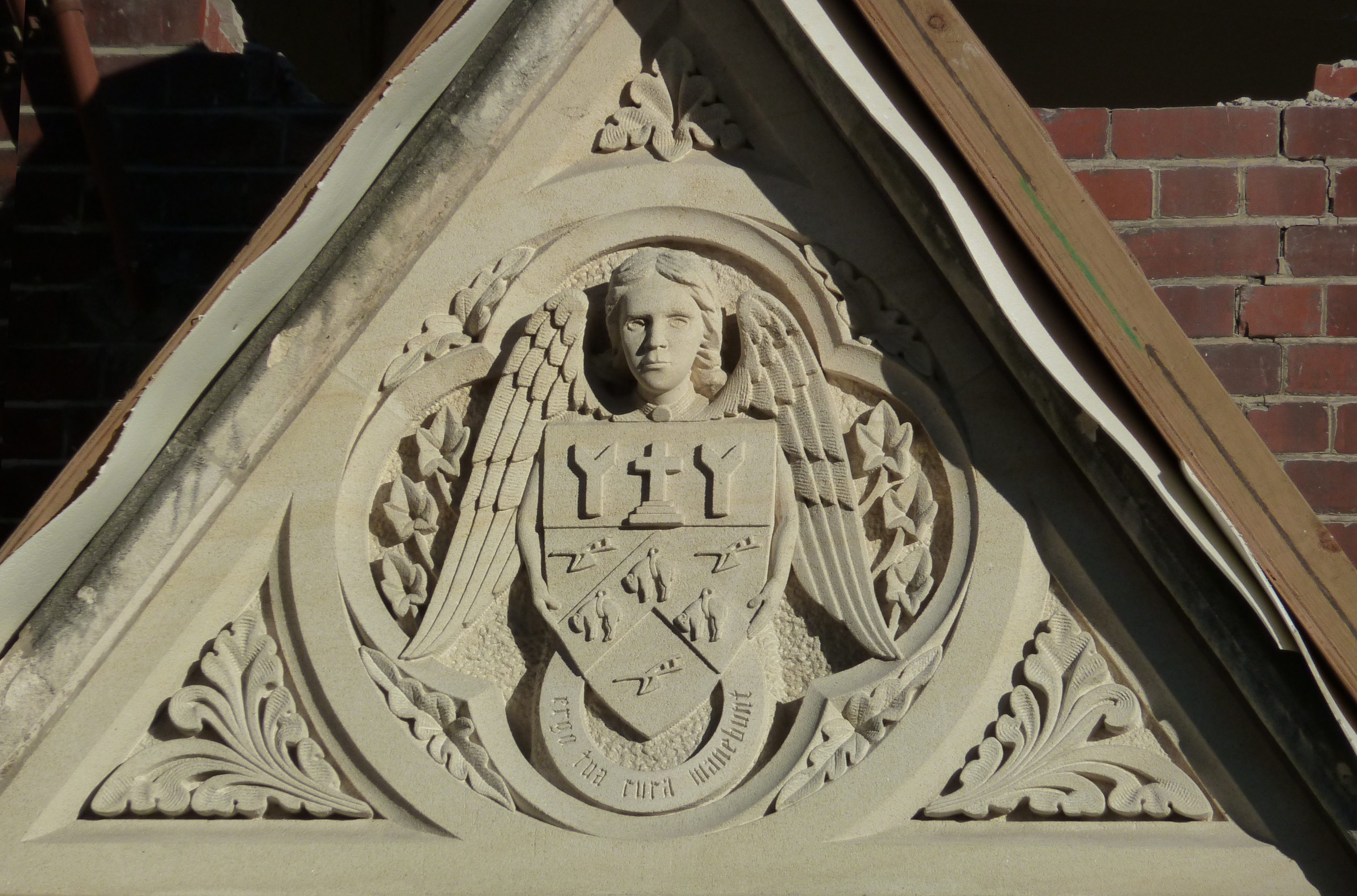 The old Christchurch Girls High School, Cranmer Square. The crest over the main entrance on Armagh Street is of the Canterbury College and the inscription reads: "Ergo tua rura manebunt", meaning "therefore may your fields prosper". See the University of Canterbury website for more information. A restored version of the original, this crest was carved by Andrew Vann of East Coast Stone.